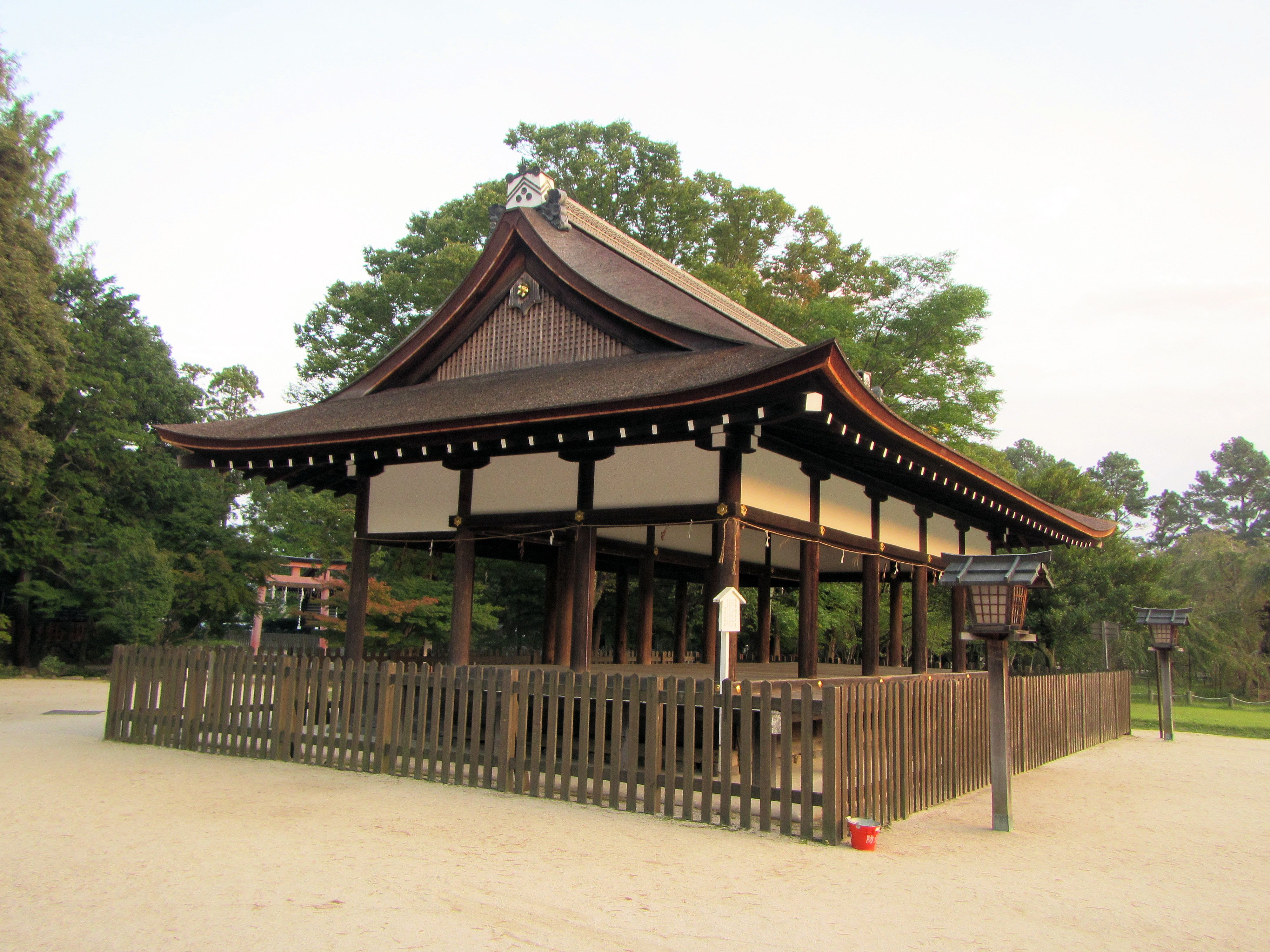 Kamigamo-Jinjya National Treasure World heritage Kyoto 国宝・世界遺産 上賀茂神社 京都